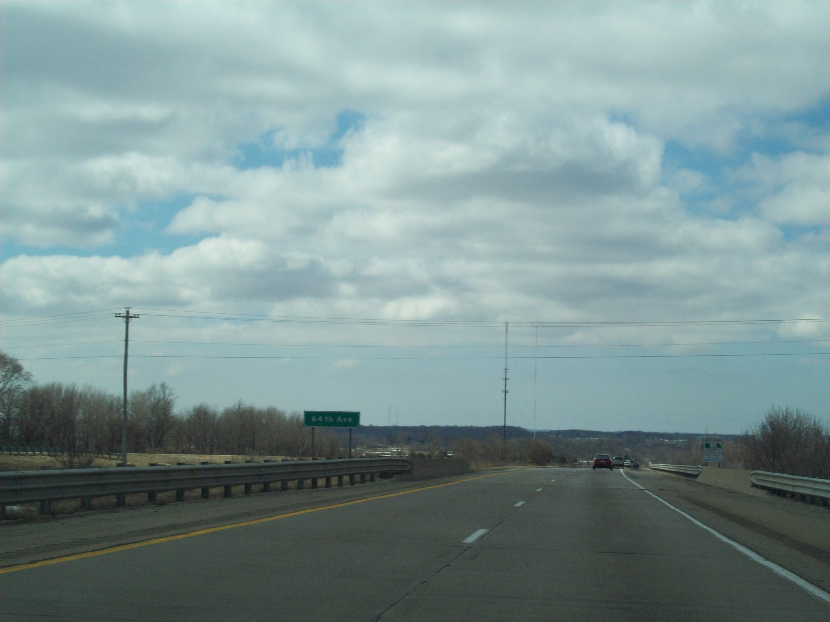 I-196